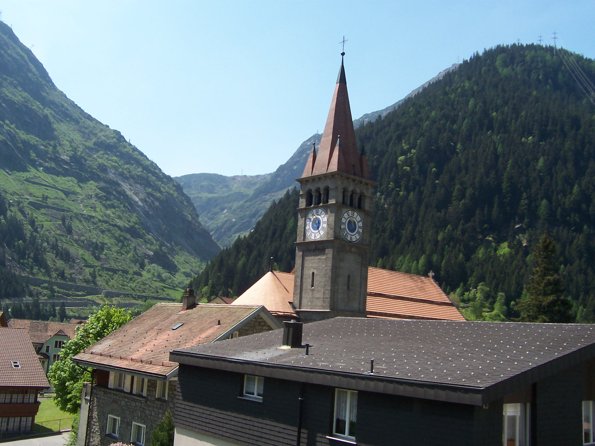 Goschenen. taken by Yoav Sorek, 21 May 2007